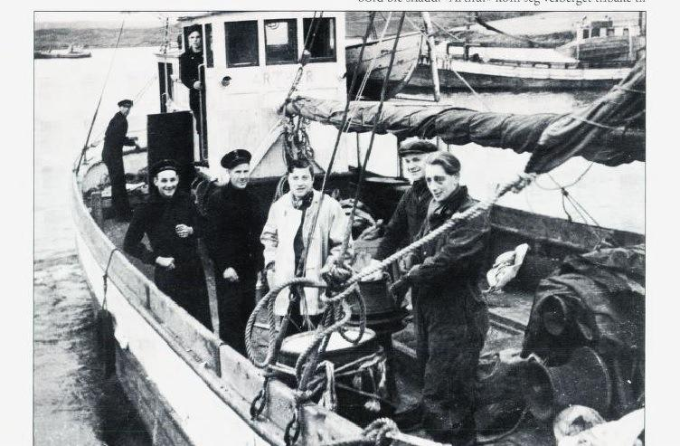 Shetlands-Larsen onboard "Arthur"